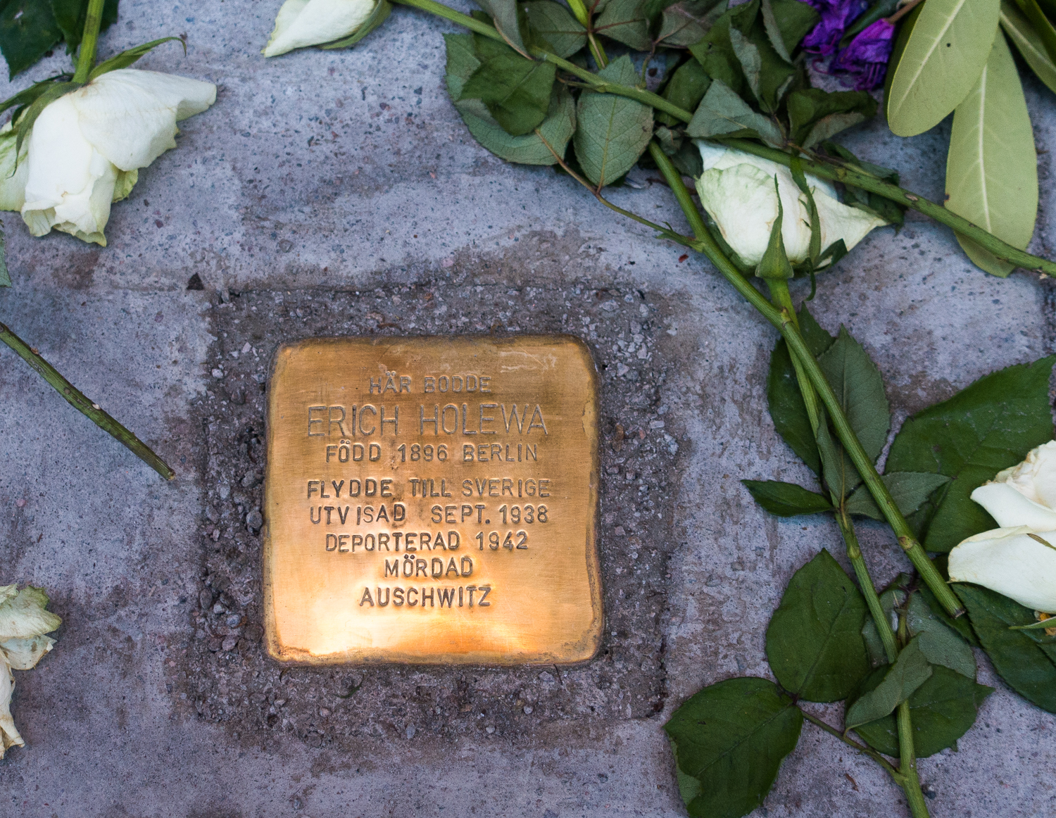 The Stolperstein were laid on June 14, 2019. At Kungsholmstorg 6, a stone in memory of Erich Holewa was expelled in 1938 and deported to Auschwitz in 1942 where he was killed. On Apelbergsgatan 36, a stone was placed in memory of Hans Eduard Szybilski. He was expelled in 1939 and deported from Berlin to Auschwitz in 1943. At Gumshornsgatan 6, a stumbling block was placed in memory of Curt Moses, which was expelled in 1937 and which was probably killed in Riga in 1941.